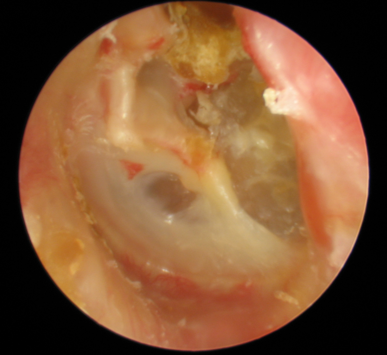 Sinus-tympanicus-Cholesteatom